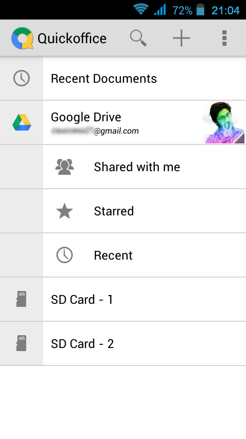 Quickoffice to read and write any document.Powered by Google